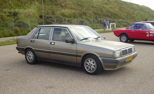 Prisma 1,6ie '88